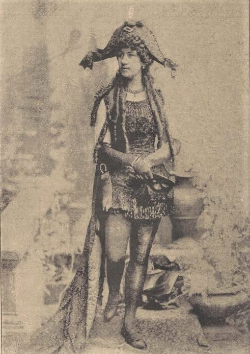 Portrait photograph of the Australian actress Kate Rickards (1862– 1922) in costume as Sappho. She was the second wife of Harry Rickards